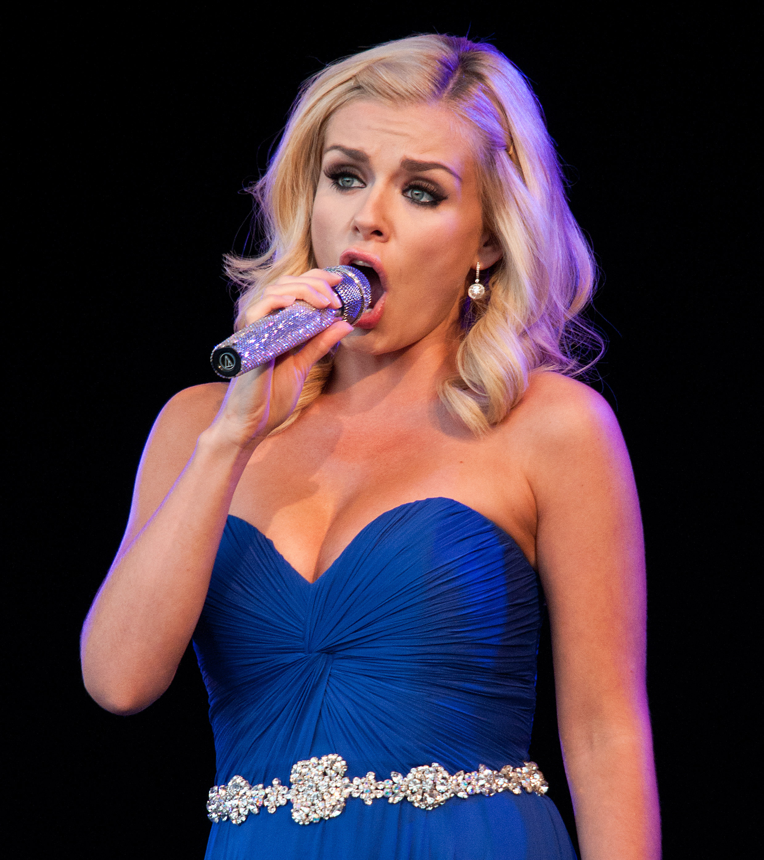 Katherine Jenkins live at Clumber Park in August 2011.